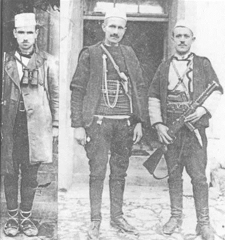 Mefail Shehu(centre) with Mefail Mehmeti(right) and Begzat Vuli(left)